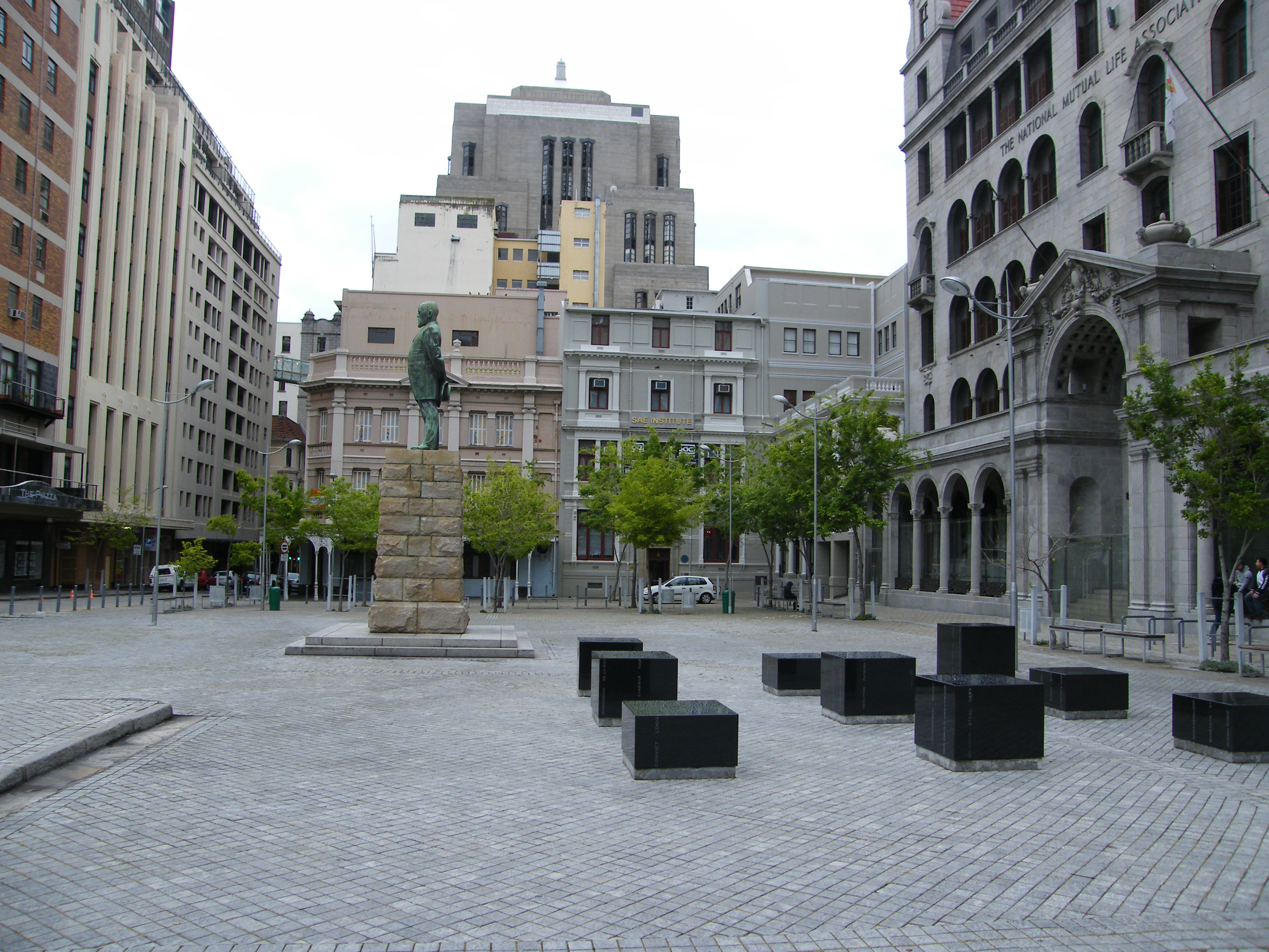 This media shows a South African Protected Site with SAHRA file reference 9/2/018/0140.